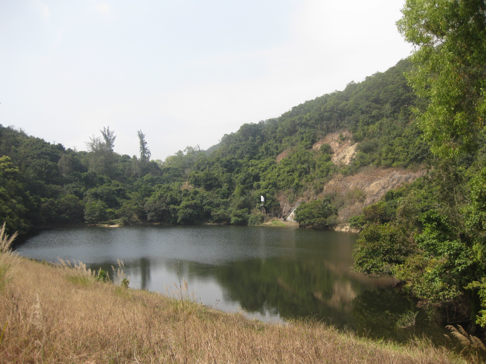 Sham Tseng Settlement Basin